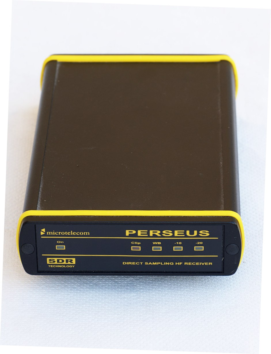 Perseus SDR (software defined radio) by Microtelecom, covering 10 kHz - 30 MHz.